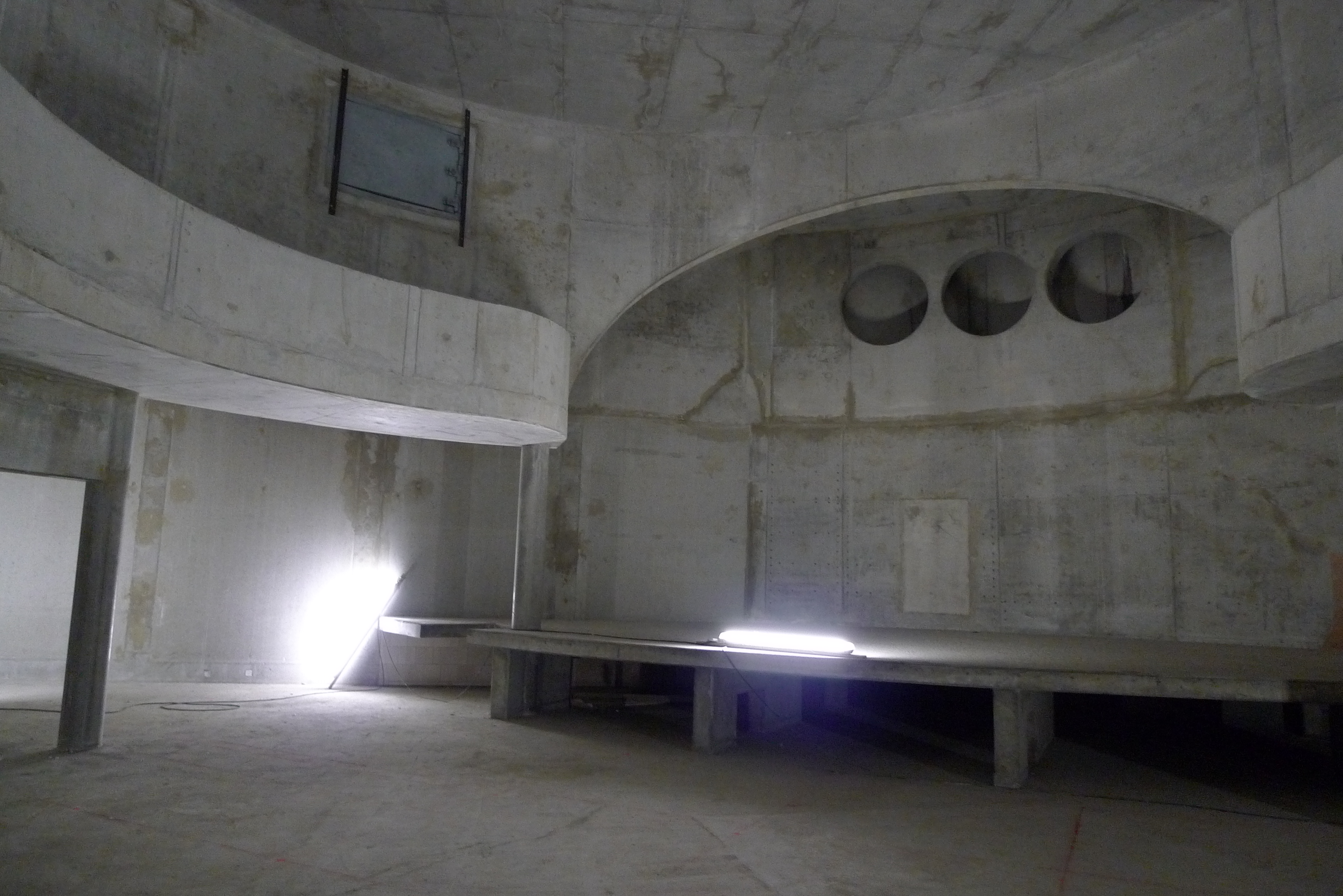 Mojo Club Hamburg, new stage